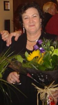 Maighread Ní Dhomhnaill in Dublin